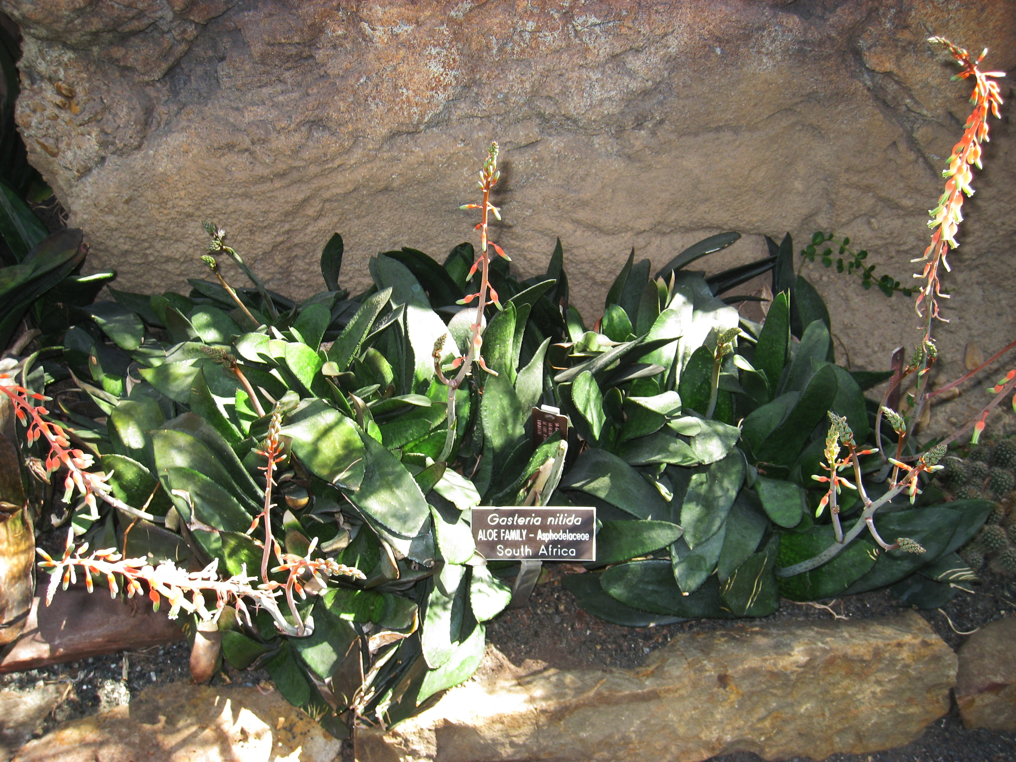 Gasteria nitida var armstrongii, in the United States Botanic Garden, Washington, DC, USA.